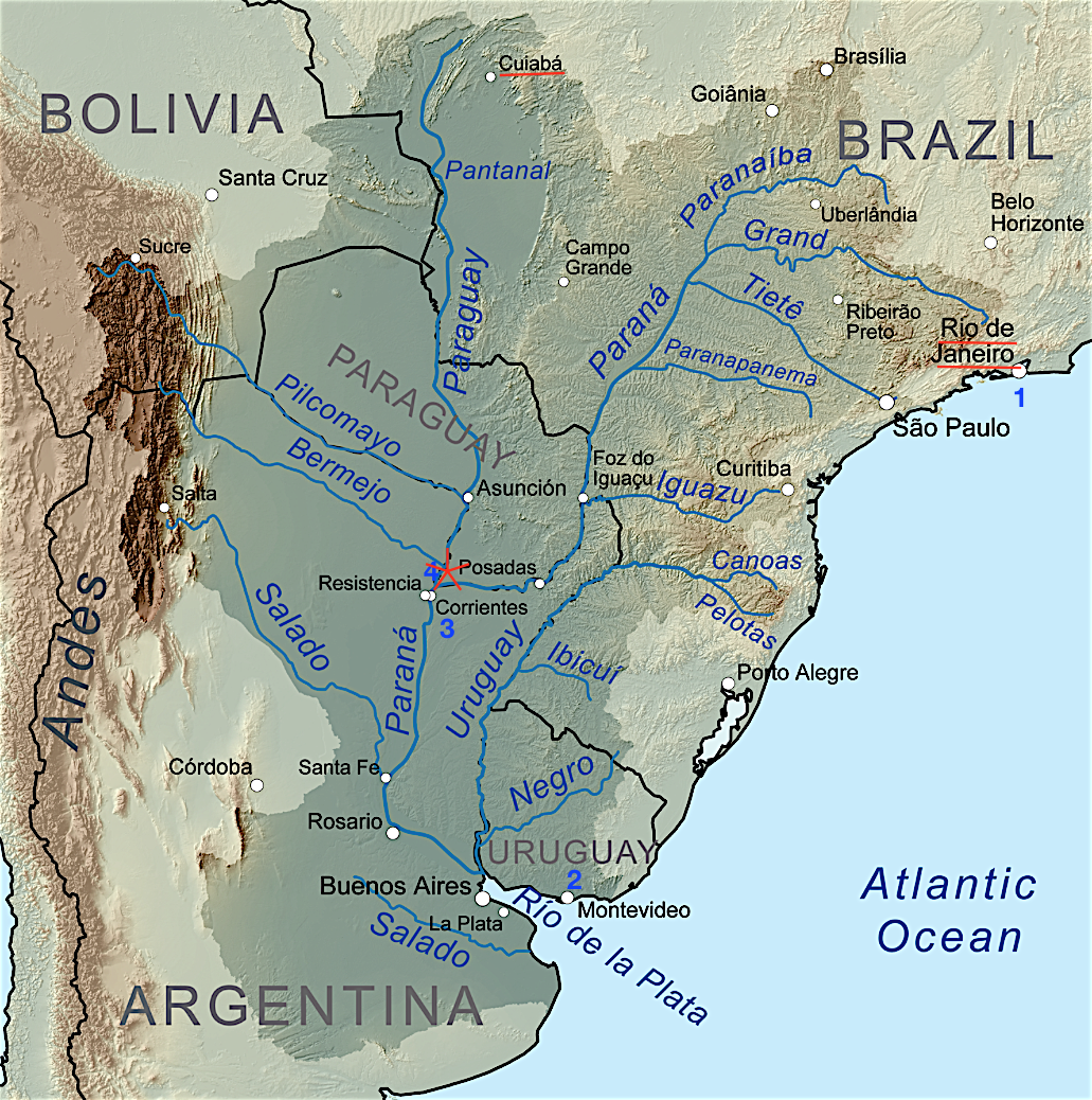 Brazil's lengthy lines of communication with the Fortress of Humaitá 1868